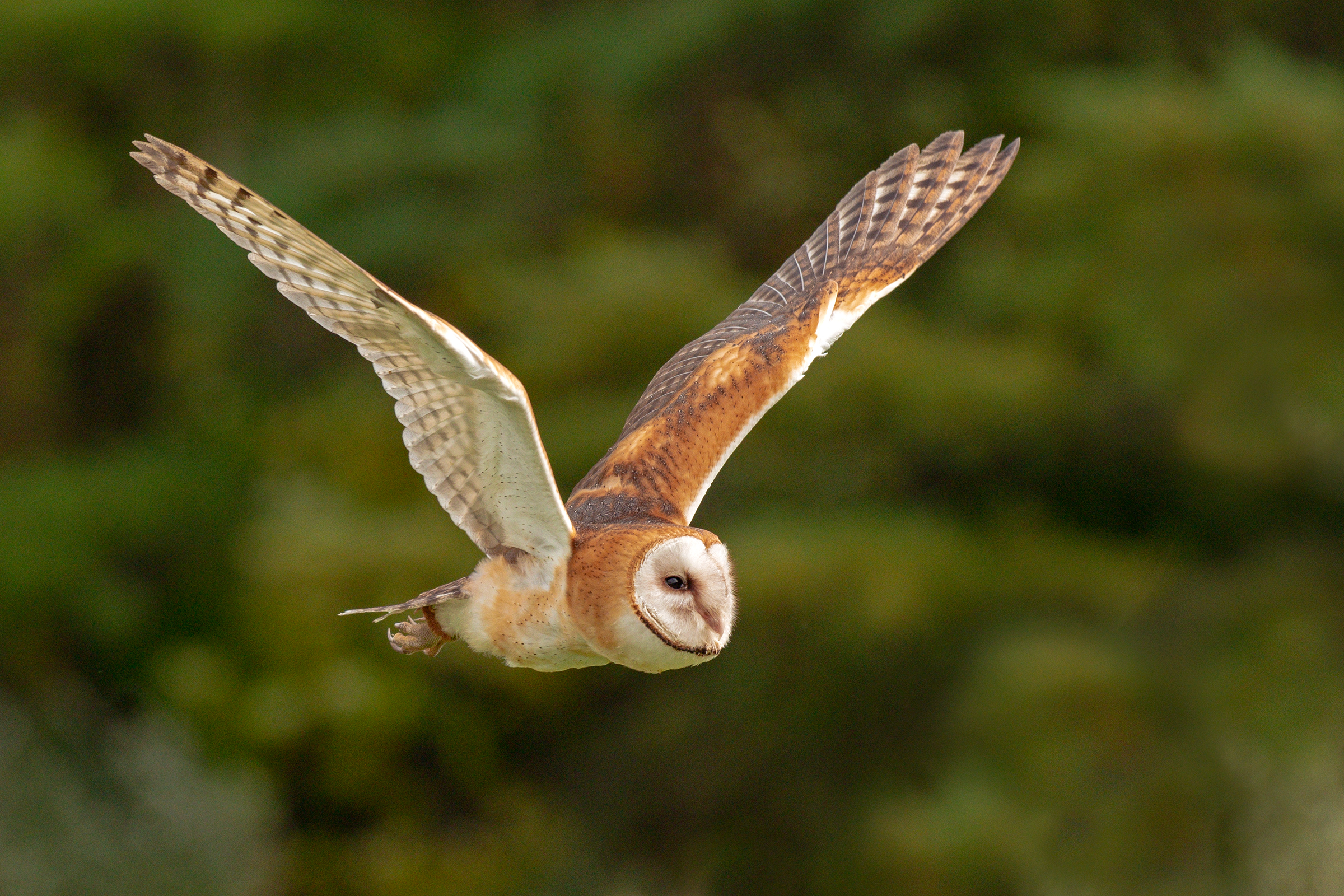 Barn Owl (Canada) in flight